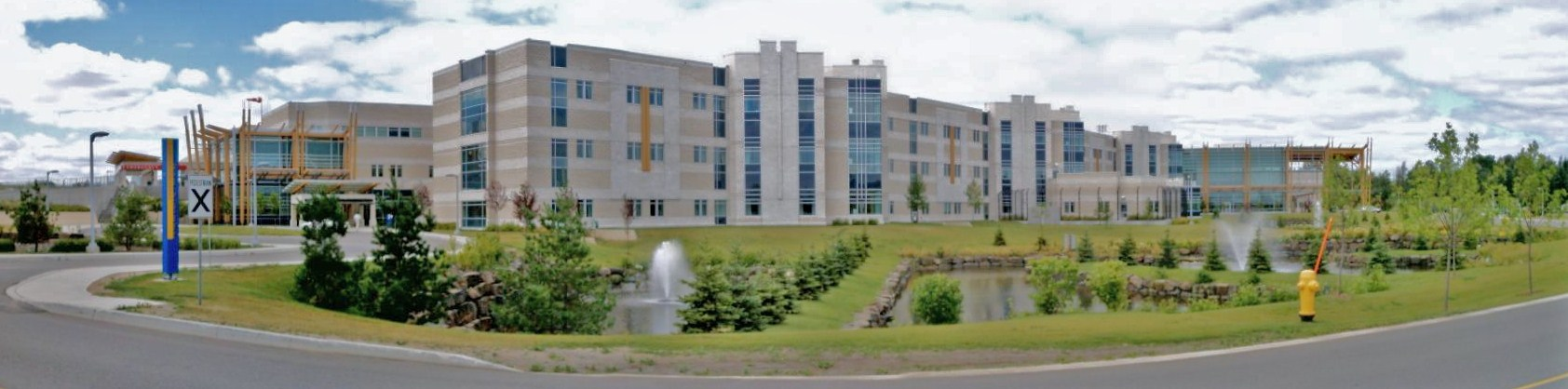 I, (Derek Silver), took this photograph on 26 July 2005. It is a panoramic view of the Thunder Bay Regional Health Sciences Centre from the south east showing the emergency area on left and atrium on right, in Thunder Bay, Ontario. I hereby release it into public domain for the masses to enjoy. :) Vidioman 12:30, 15 April 2007 (UTC)